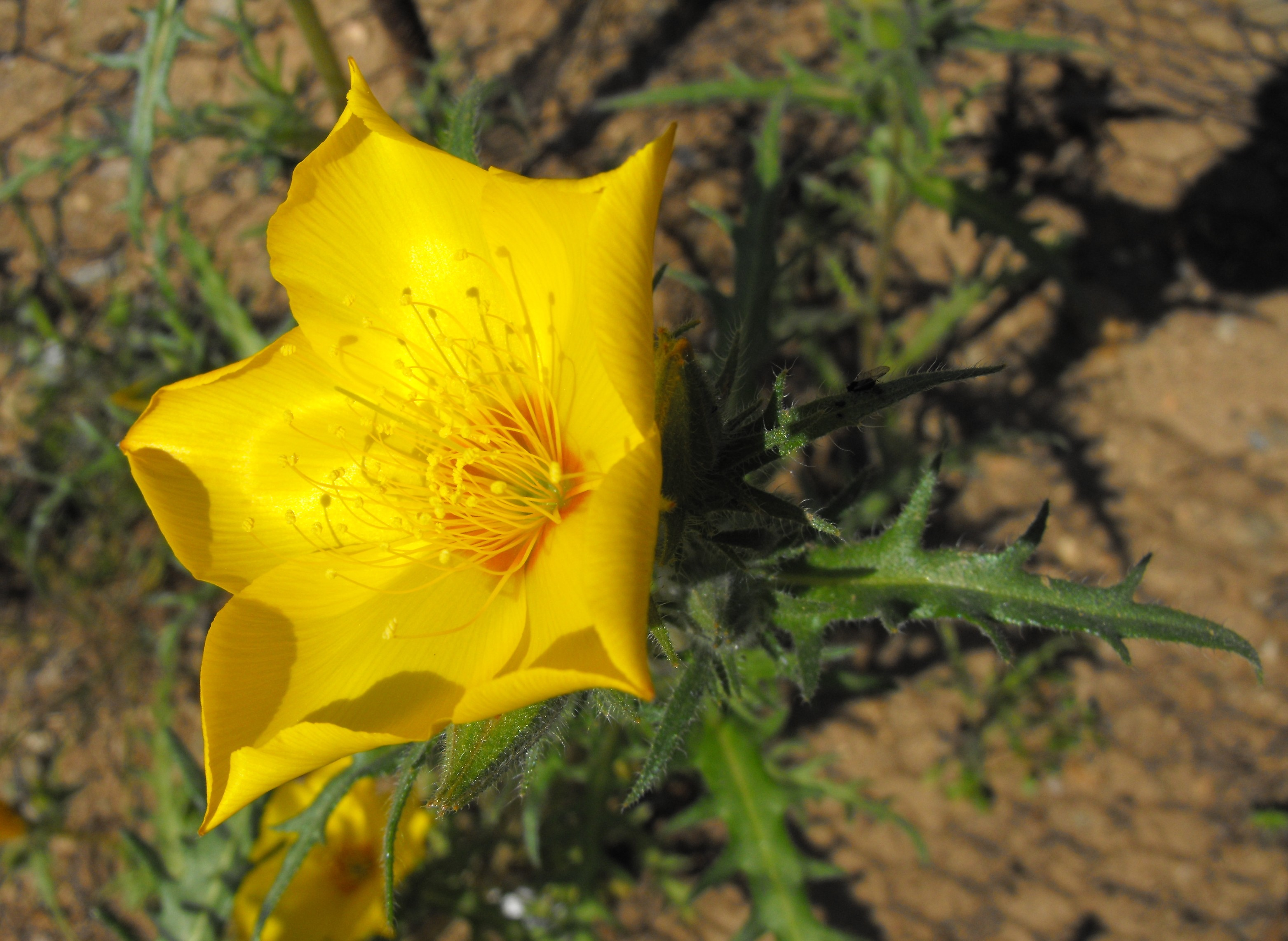 Mentzelia lindleyi - at the Rancho Santa Ana Botanic Garden in Claremont, Southern California, U.S. Identified by garden i.d. sign.